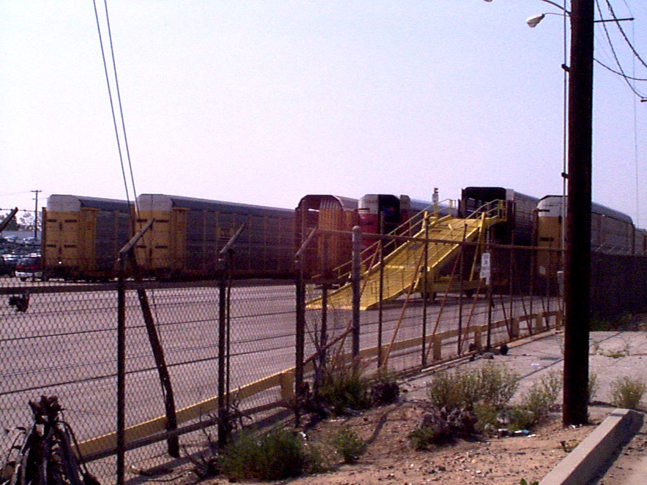 Auto racks wait to be unloaded at a BNSF facility in Los Angeles, California in March, 1999. Photograph by Robert A. Estremo, copyright 1999.